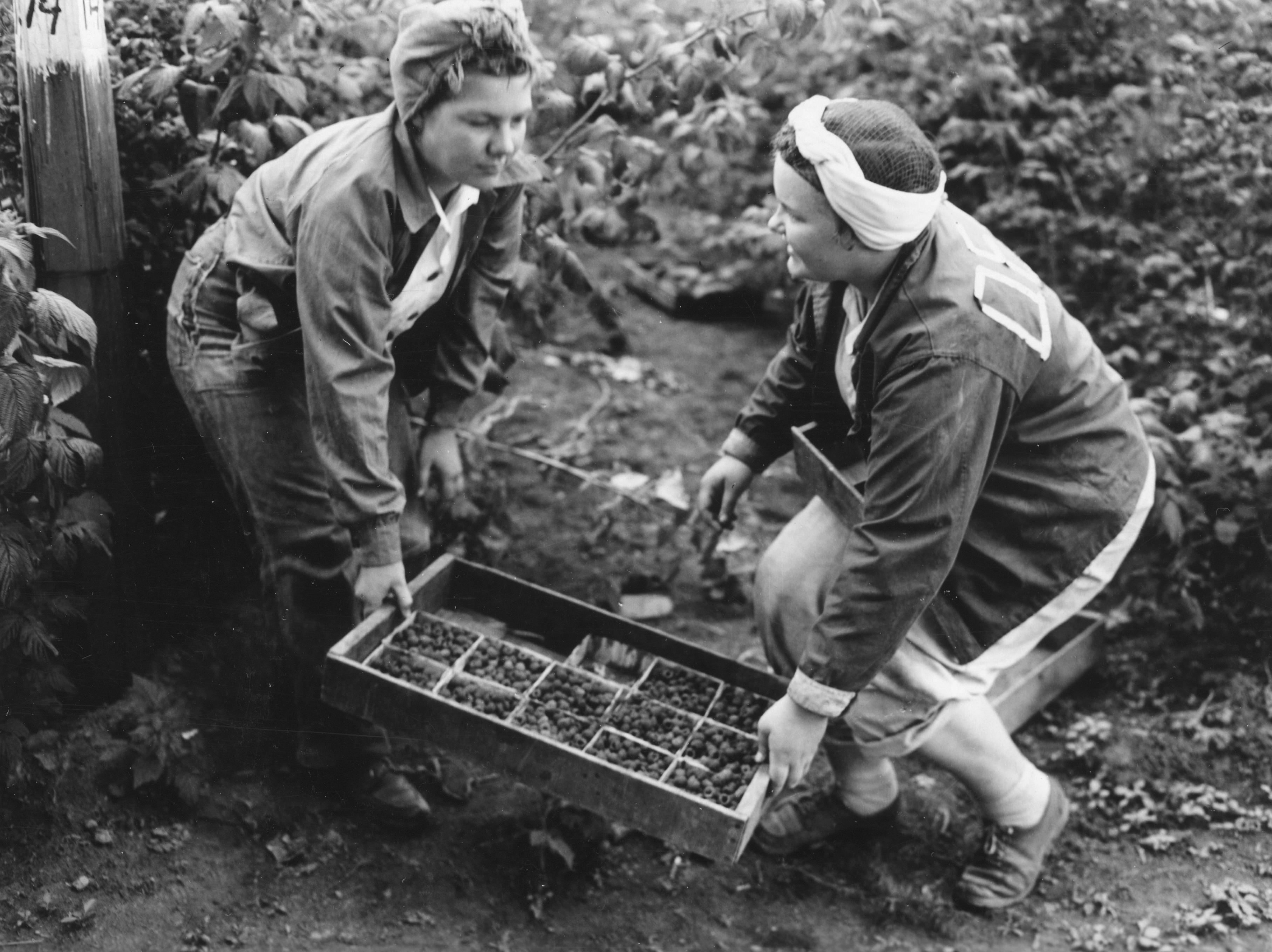 Original Collection: Extension and Experiment Station Communications Item Number: P120:2523 Image Description: Shirley Gamble, 17, left and Haroldine DeBord, 16, are picking up a crate of raspberries near Boring, Oregon. You can find this image by searching for the item number by clicking here. Want more? You can find more digital resources online. We're happy for you to share this digital image within the spirit of The Commons; however, certain restrictions on high quality reproductions of the original physical version may apply. To read more about what “no known restrictions” means, please visit the Special Collections & Archives website, or contact staff at the OSU Special Collections & Archives Research Center for details.